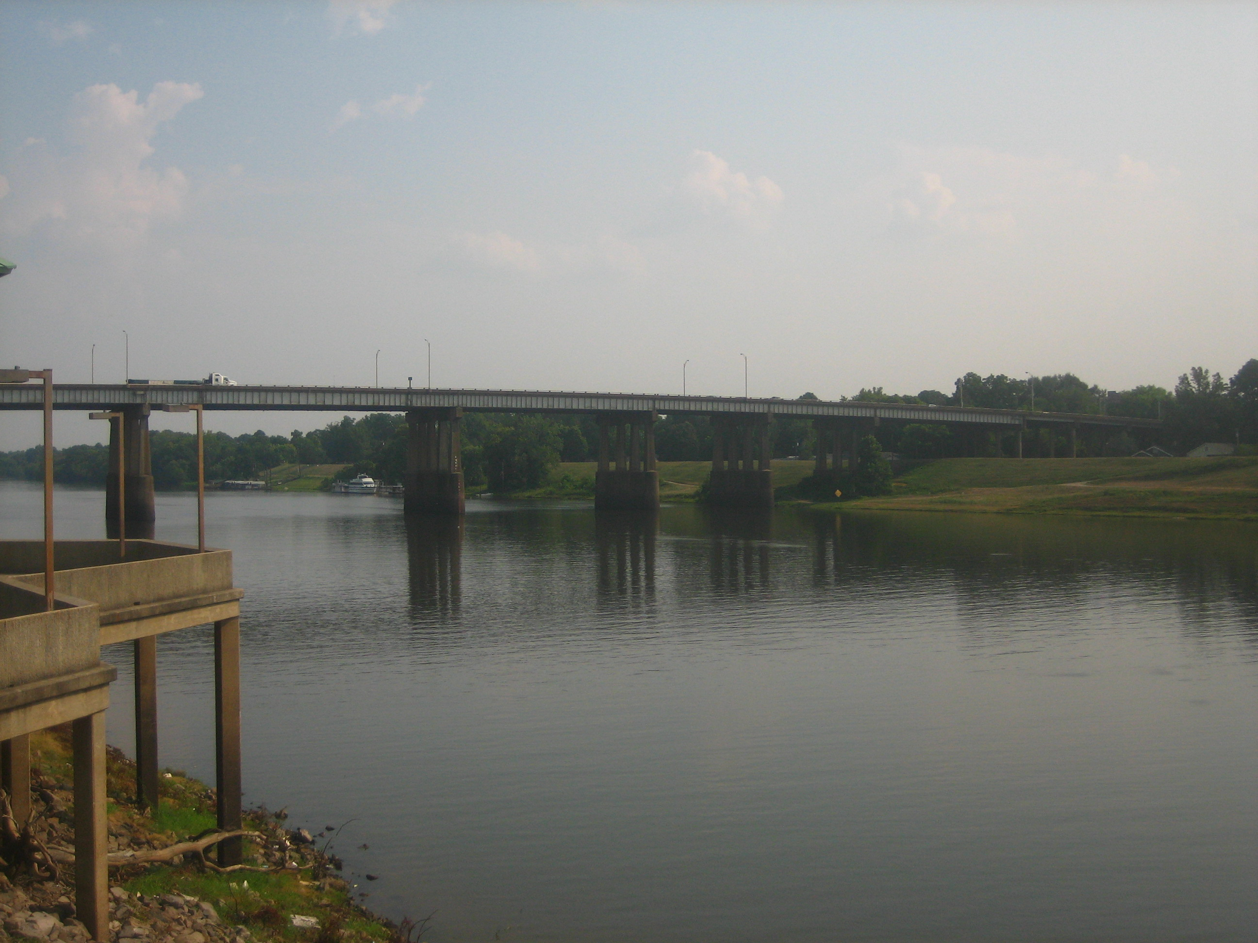 I took photo on Aug. 2, 2008.Billy Hathorn (talk) 04:31, 17 August 2008 (UTC)